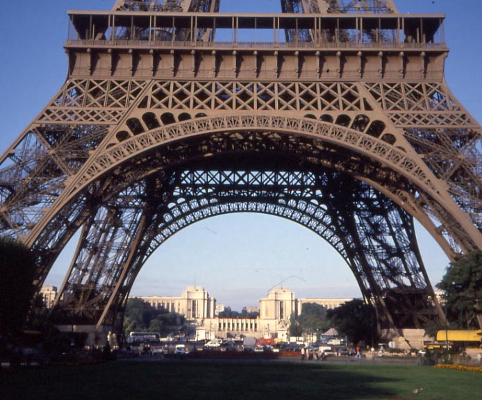 Eiffel Tower in Paris (France)